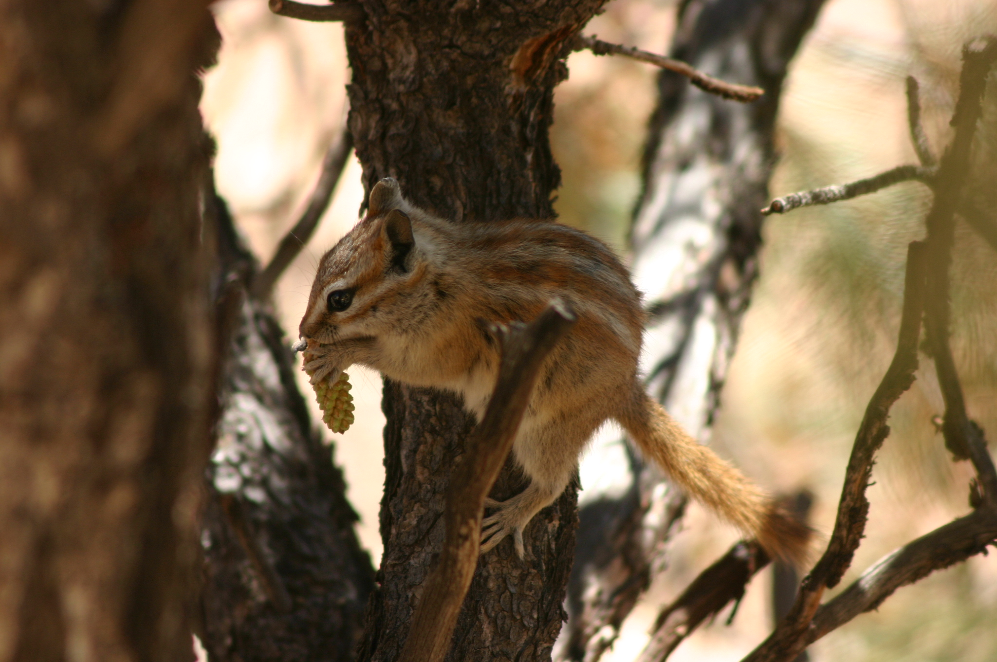 Chipmunk feeding on pinecone while balancing on tree trunk at Hickman Bridge Trail, Capitol Reef National Park, Utah, USA. Judging from the brown and gray stripes and brown tail, this is probably Tamias rufus.